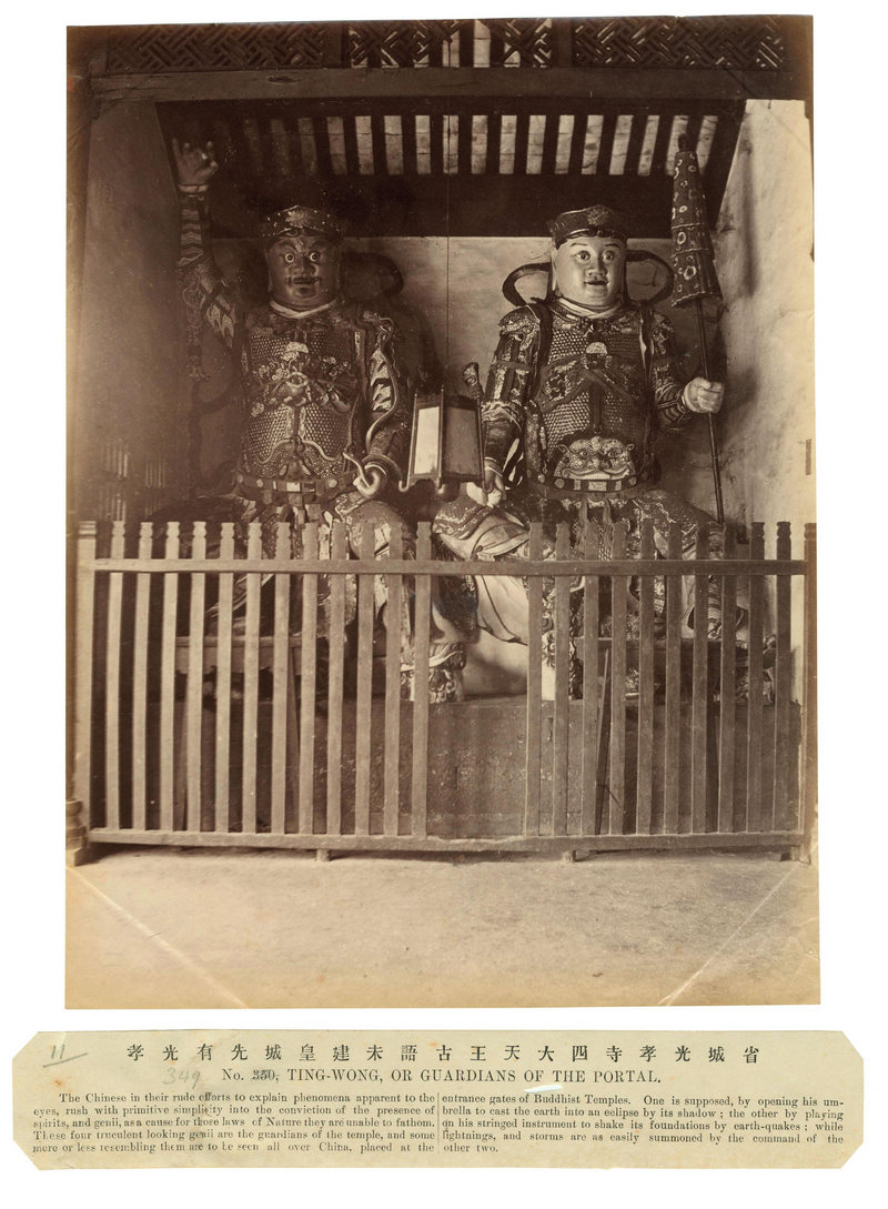 The Four Heavenly Kings(Ting Wong) in Kwong Hau Temple, Canton, China.